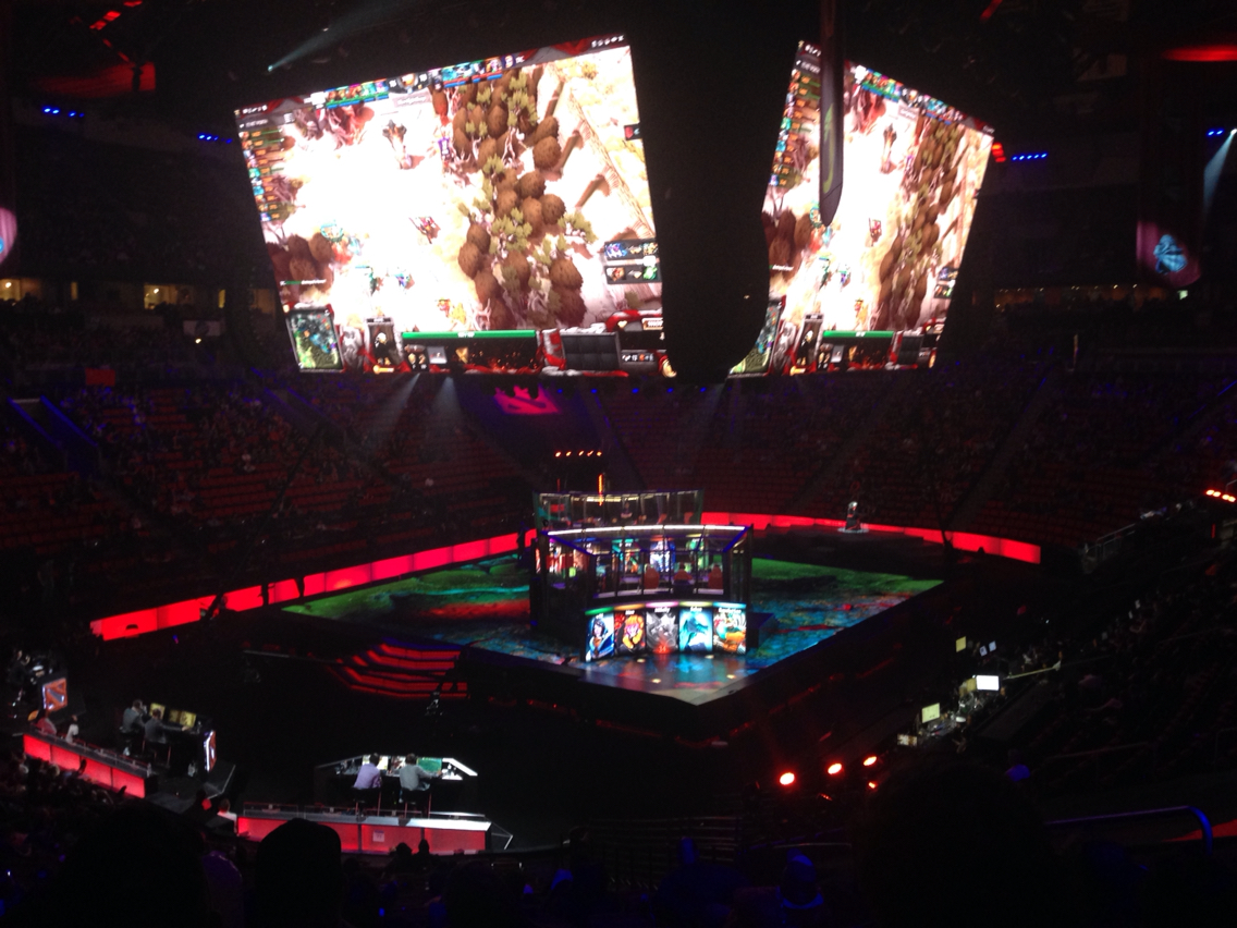 Picture taken at The International 2016